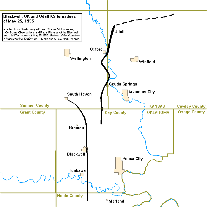 Map showing the tracks of the 1955 F5 tornadoes that hit Blackwell, Oklahoma and Udall, Kansas.